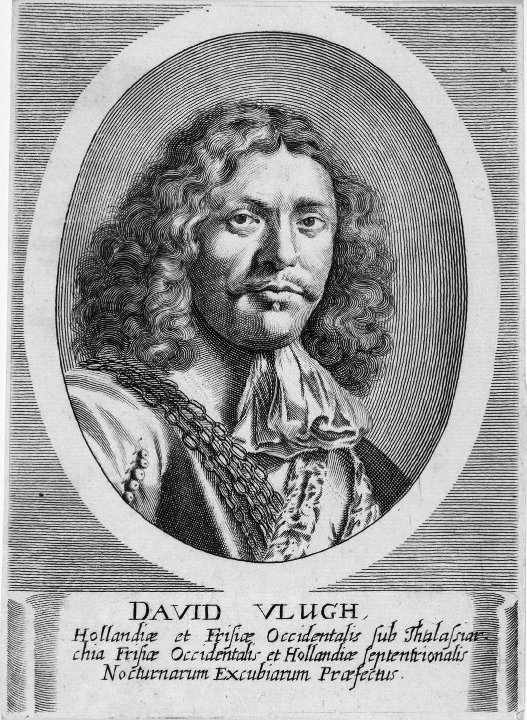 David Vlugh (1611-1673), Admiral of the Dutch Fleet etching and engraving 17.1 x 12.4 cm late 17th century